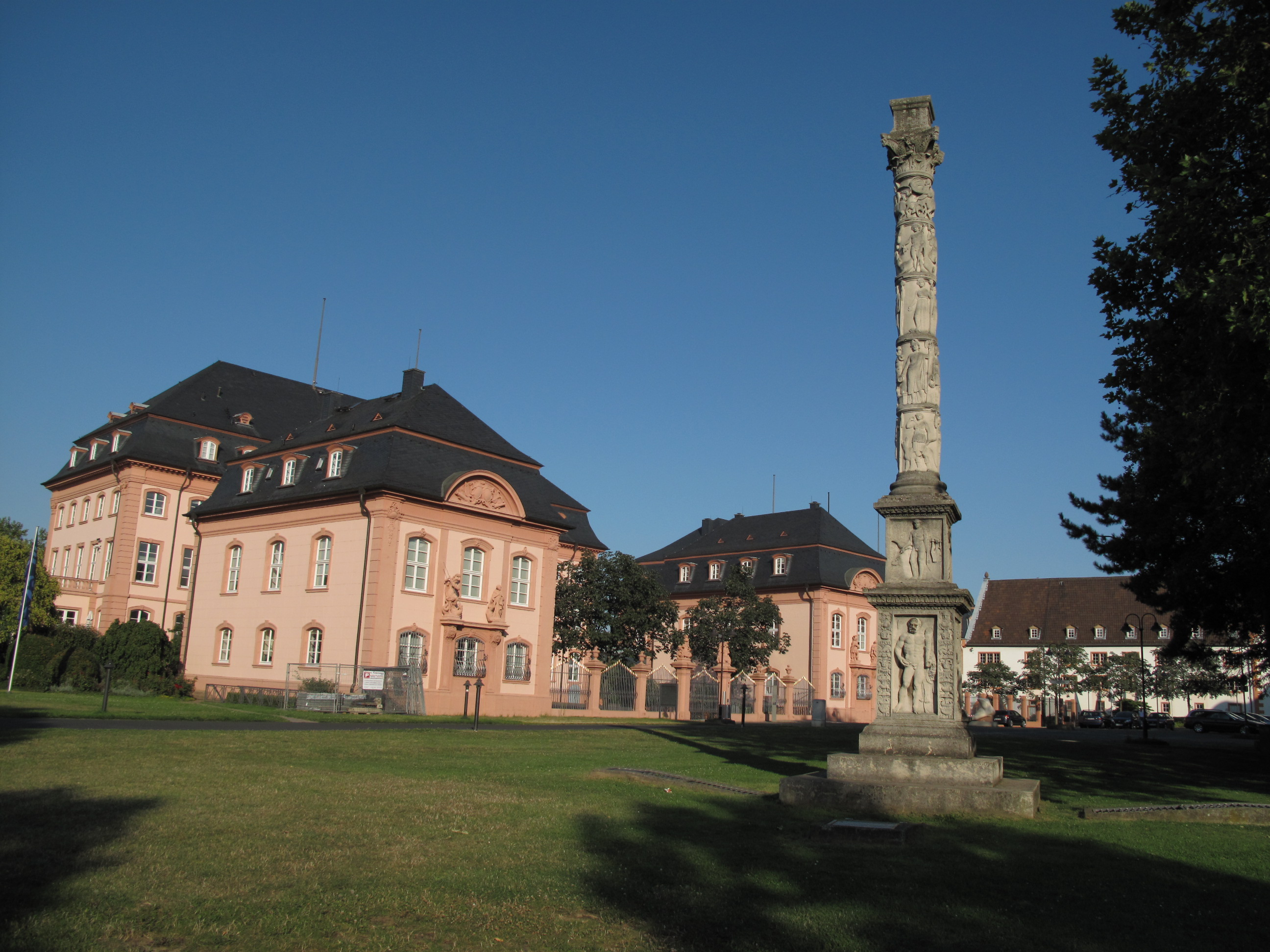 Mainz, Landtag-Staatkanzlei